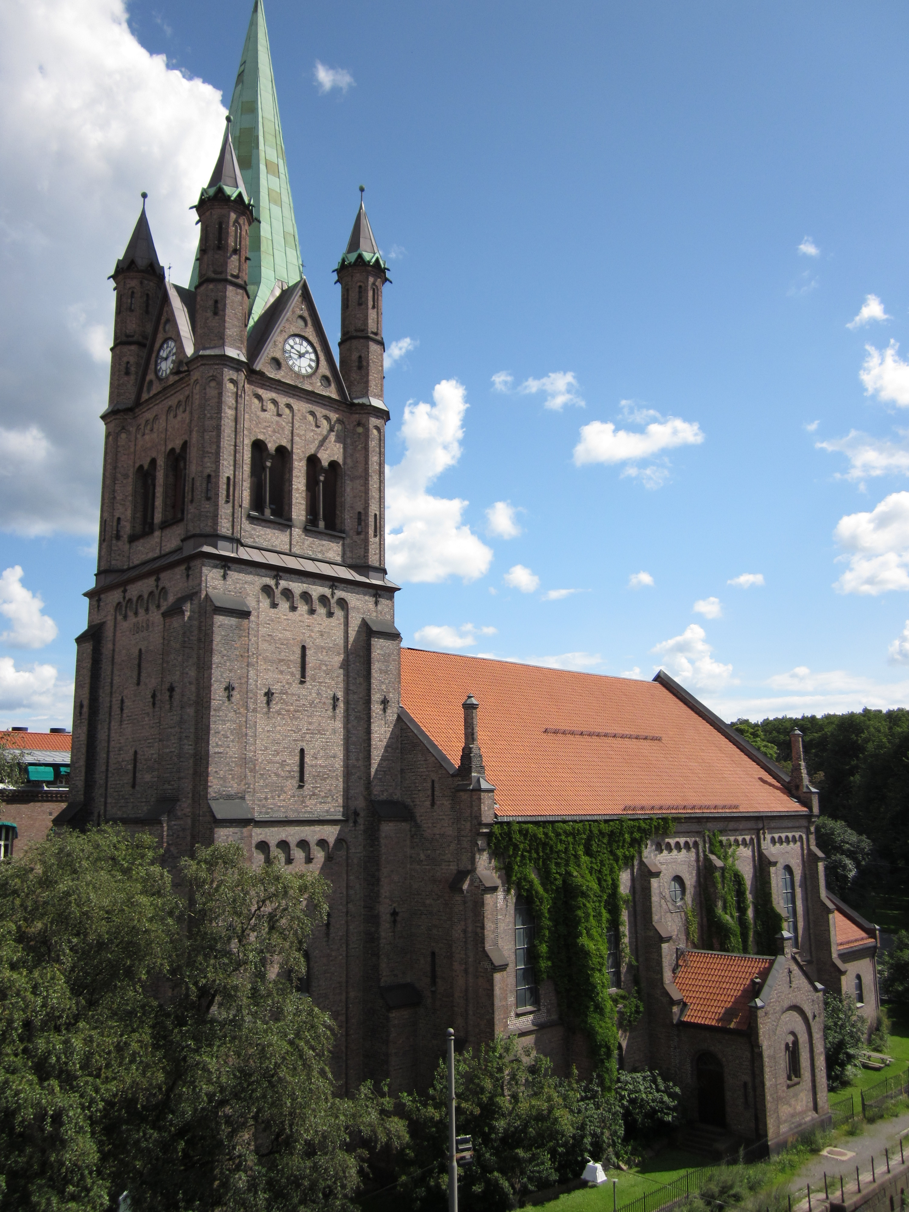 Grønland church, seen from the southwest, in the summertime. Adress: Grønlandsleiret 34, 0190 Oslo. GPS: 59°54′40″N 10°46′04″E